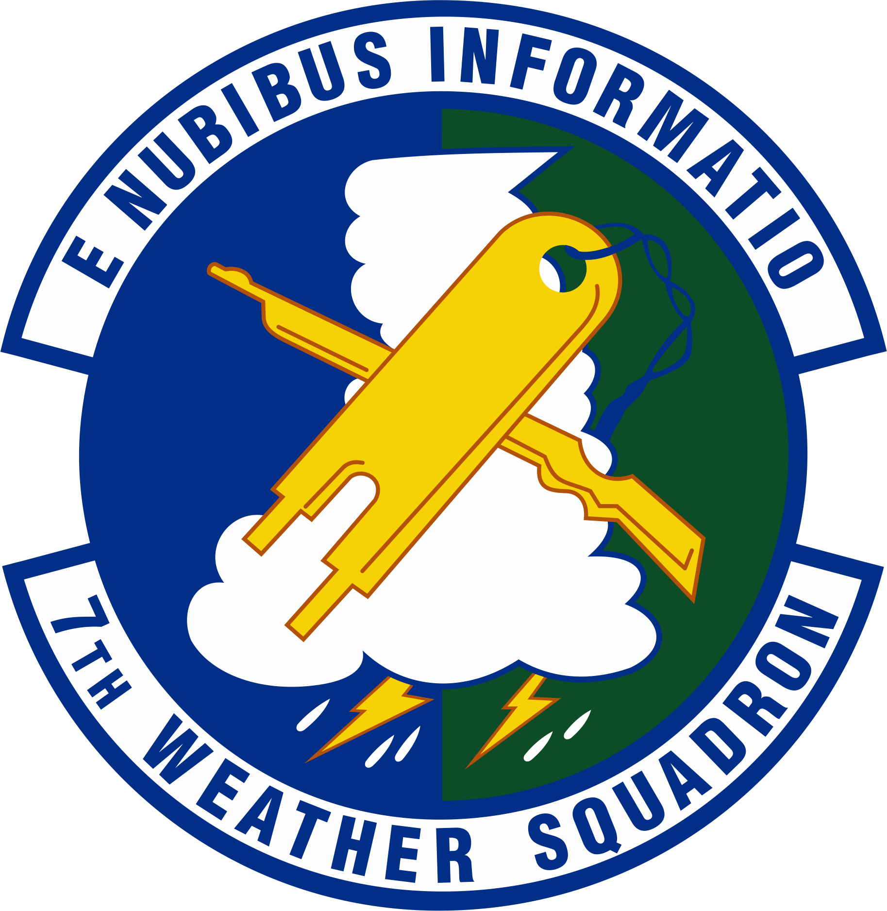 The updated emblem for the 7th Weather Squadron provided to the squadron by the Air Force Historical Research Agency